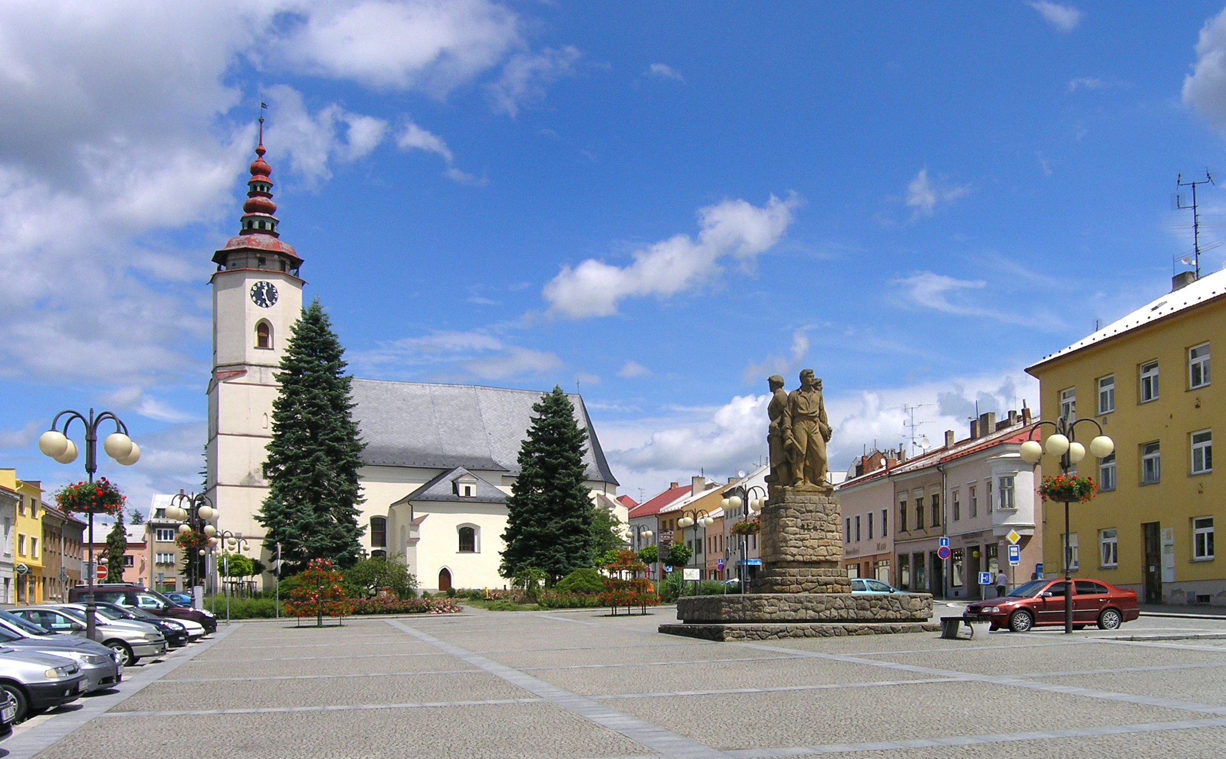 Slezské square in Bílovec, Czech Republic